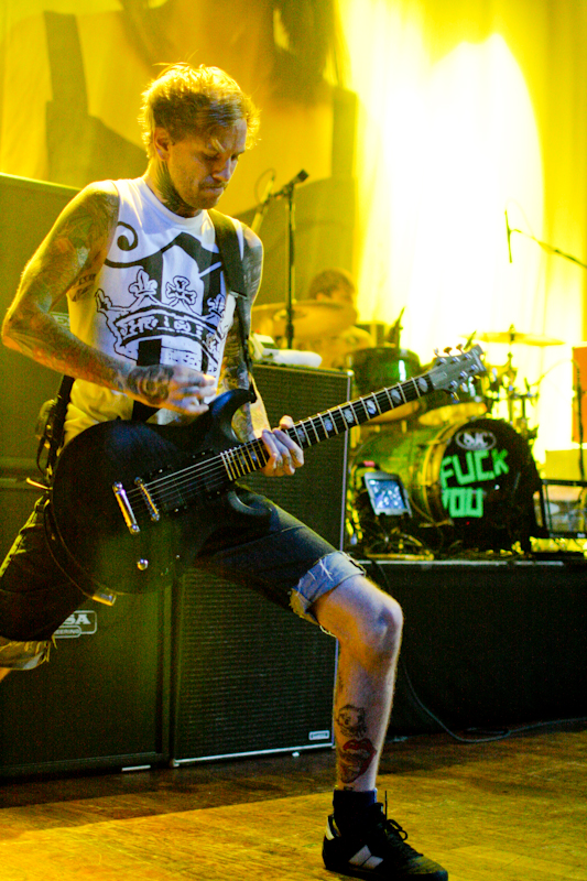 Jona Weinhofen playing with Bring Me The Horizon during their 2009 EPitaph Tour at the House of Blues - Sunset Strip